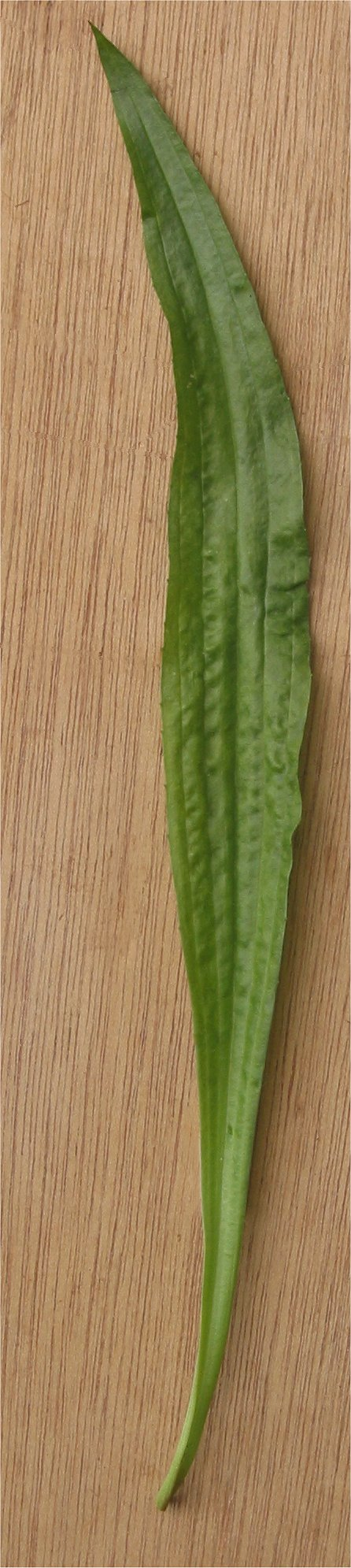 (nl: Smalle weegbree blad) Plantago lanceolata leave